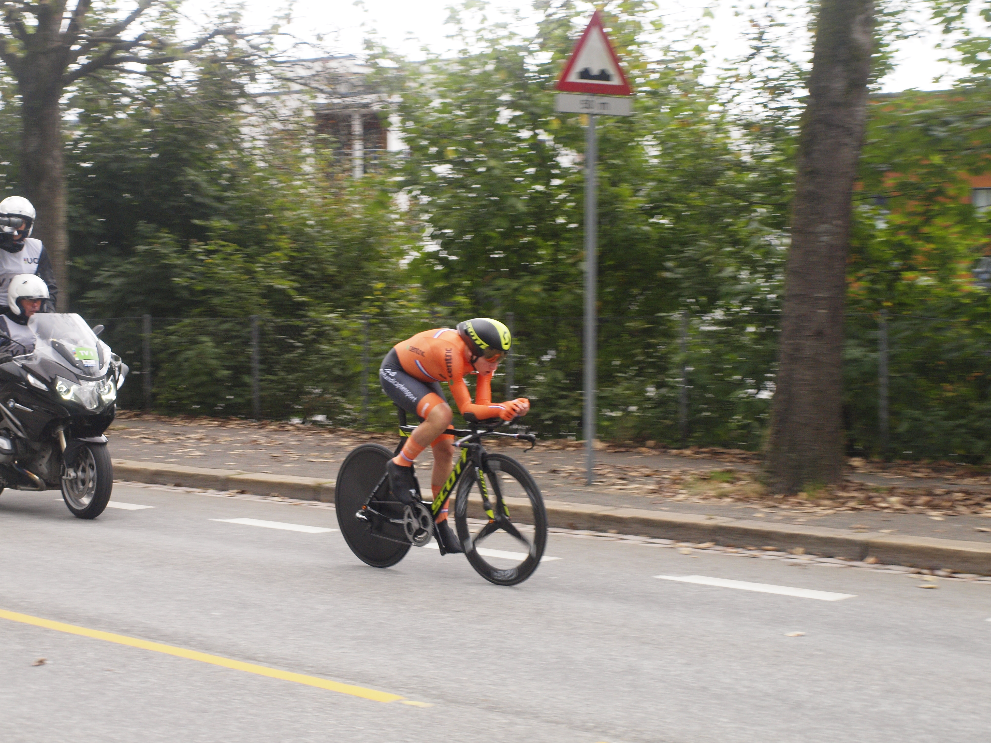 Annemiek van Vleuten at the 2017 UCI World Championships